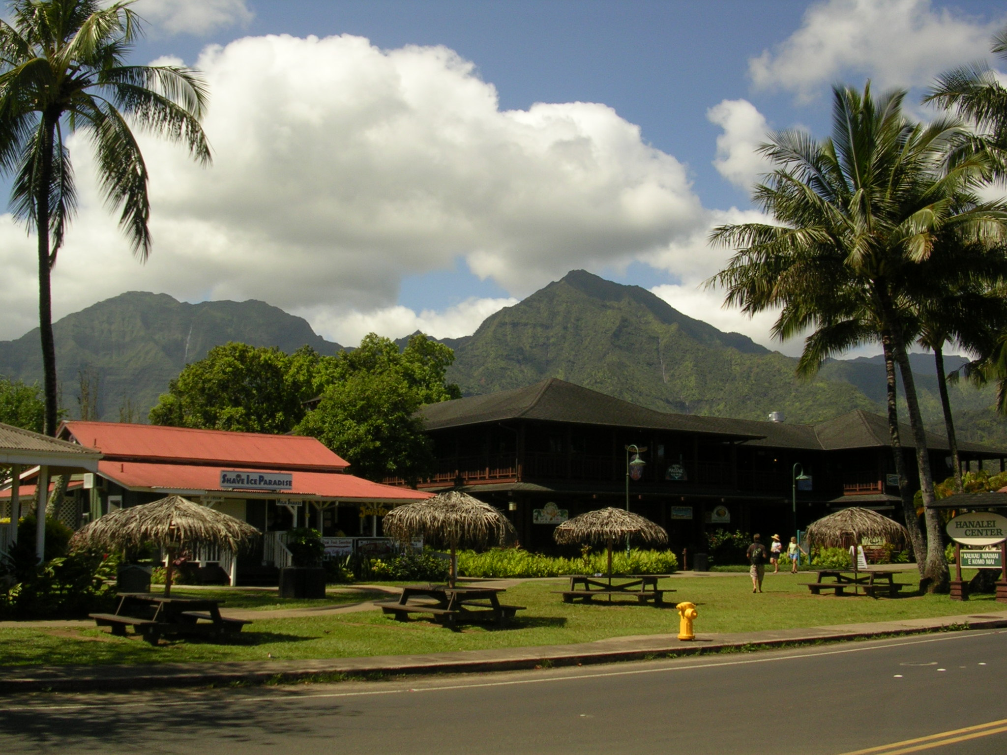 Hanalei Town, Kauai with a view of Mt. Namolokama* and Mt. Mamalahoa. Photo by Caracas1830 (2006)